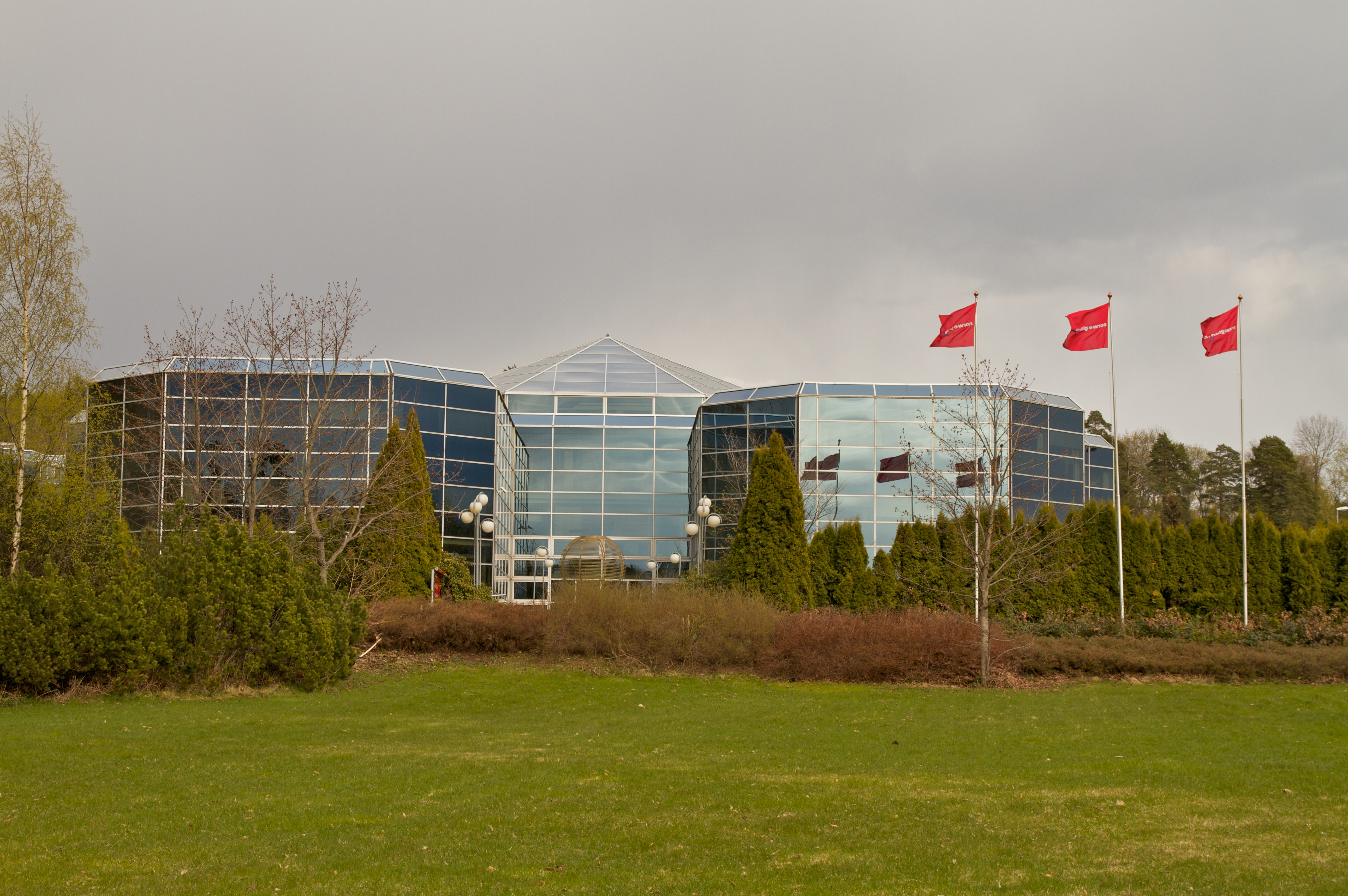 Diamanten (Oksenøyveien 3), an office building located at Fornebu in Bærum, Norway.